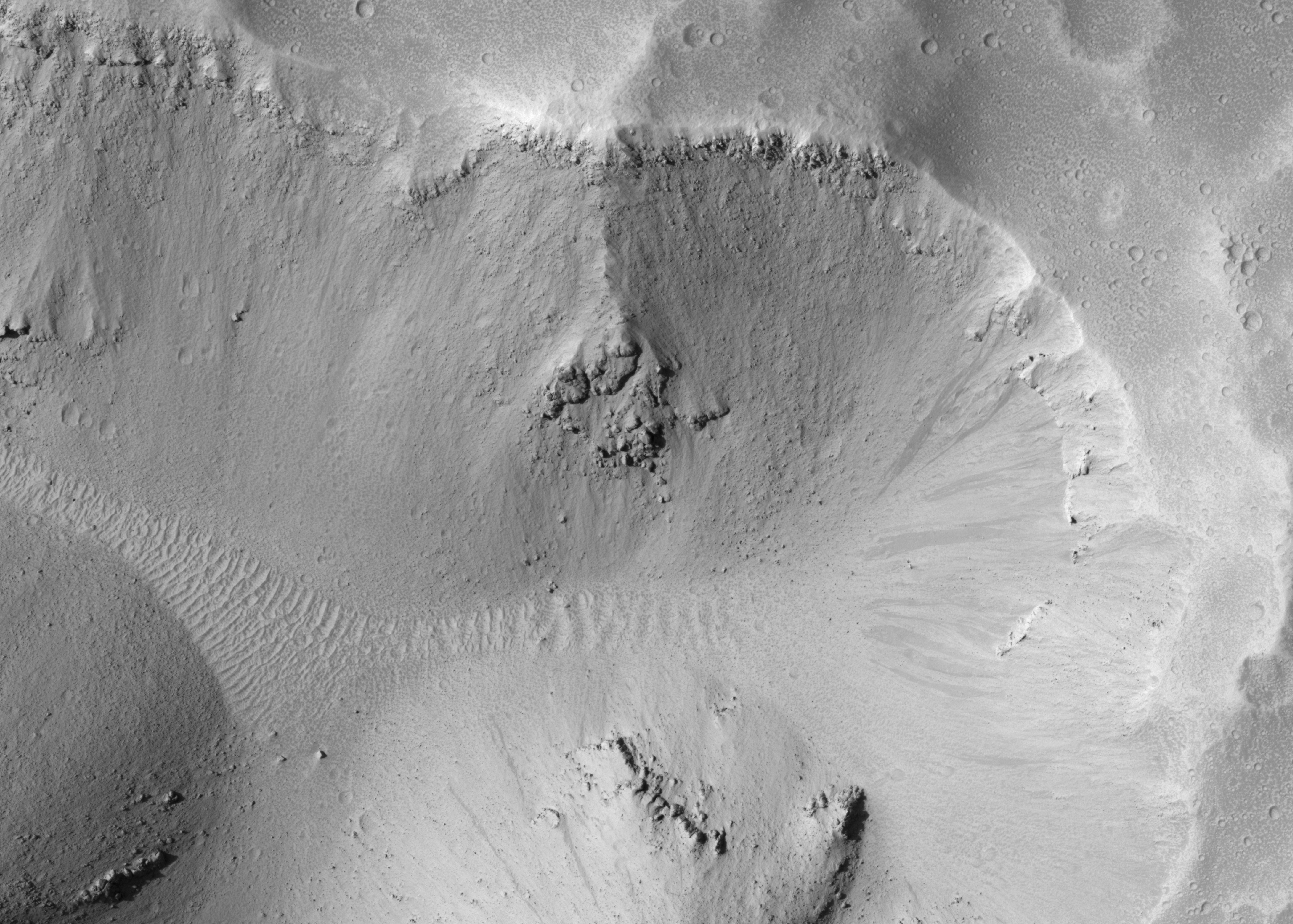 Details from a southern valley in Kasei Valles on Mars.